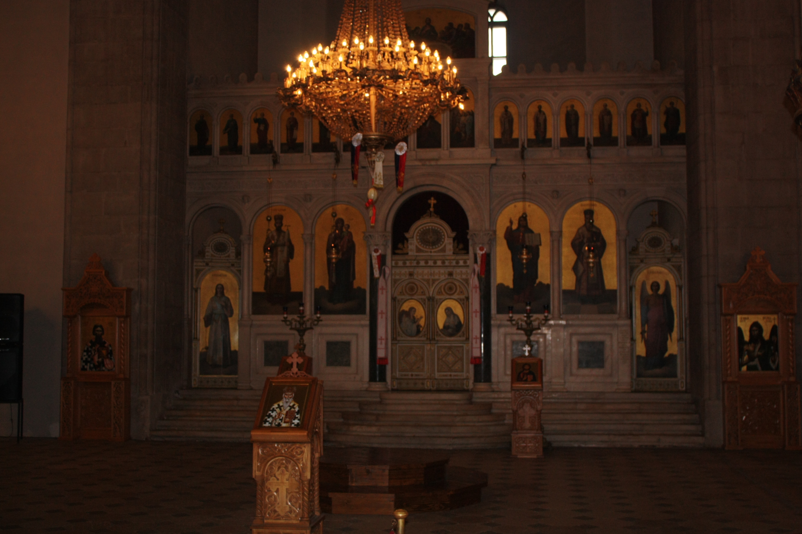 Nikšić, Montenegro - interior of the church